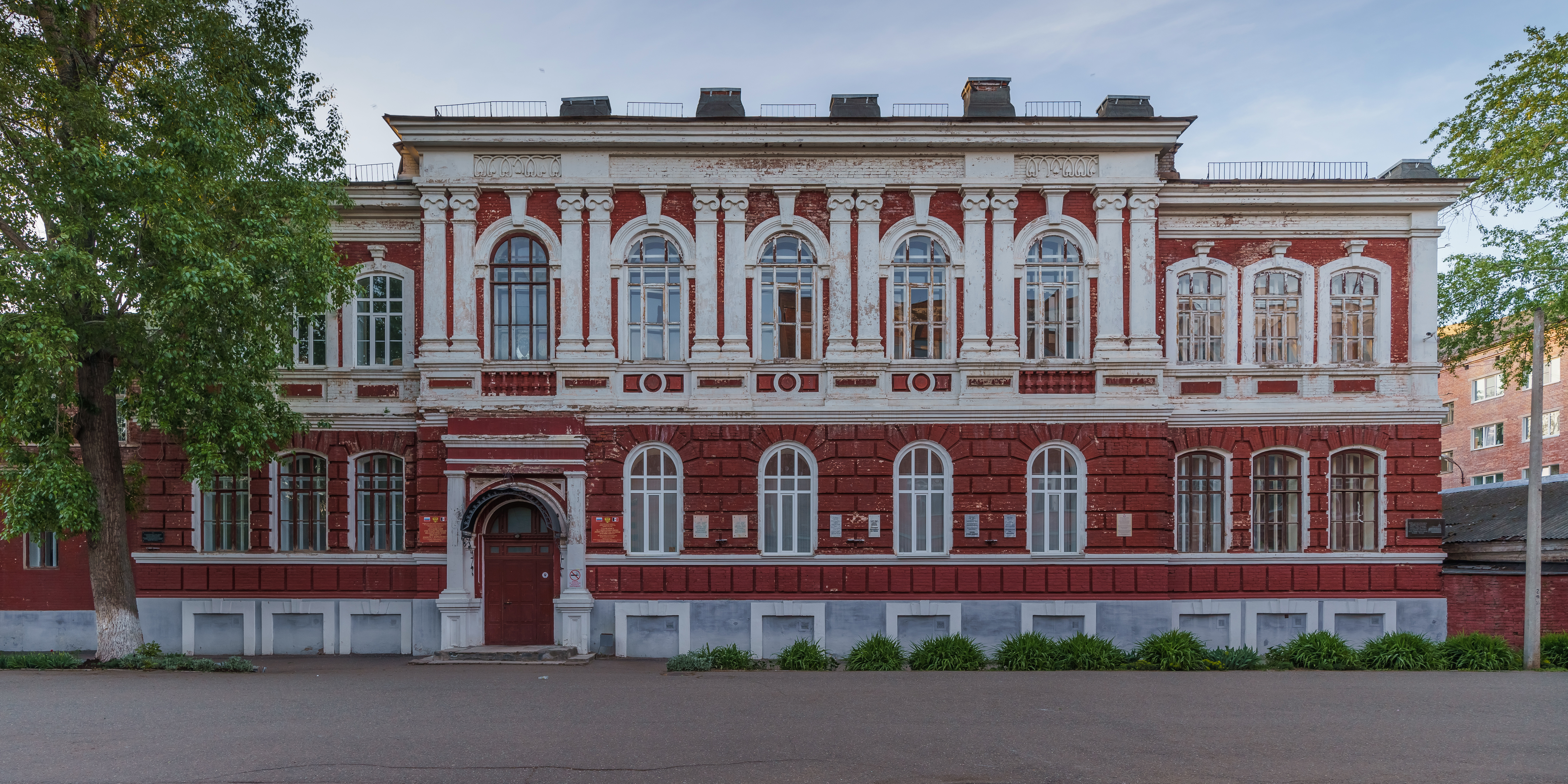 Former seminary building in Glazov, Udmurtia, Russia